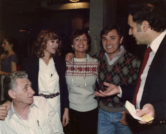 Carmon Dance Company from Israel, when performing in New York.